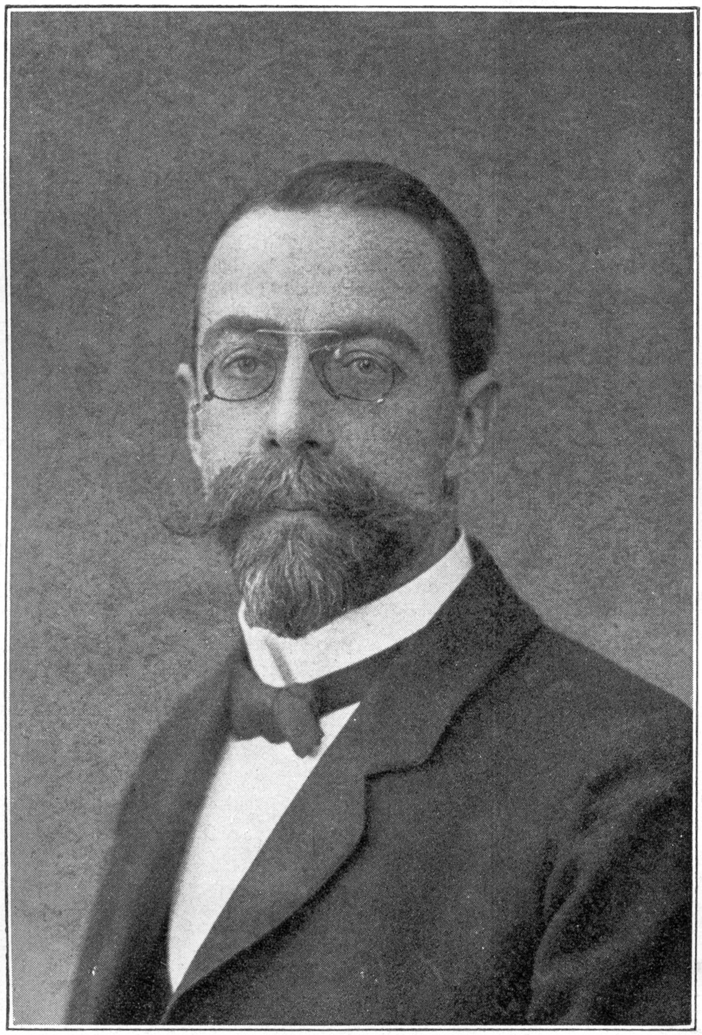 Portrait of Ernst Meumann